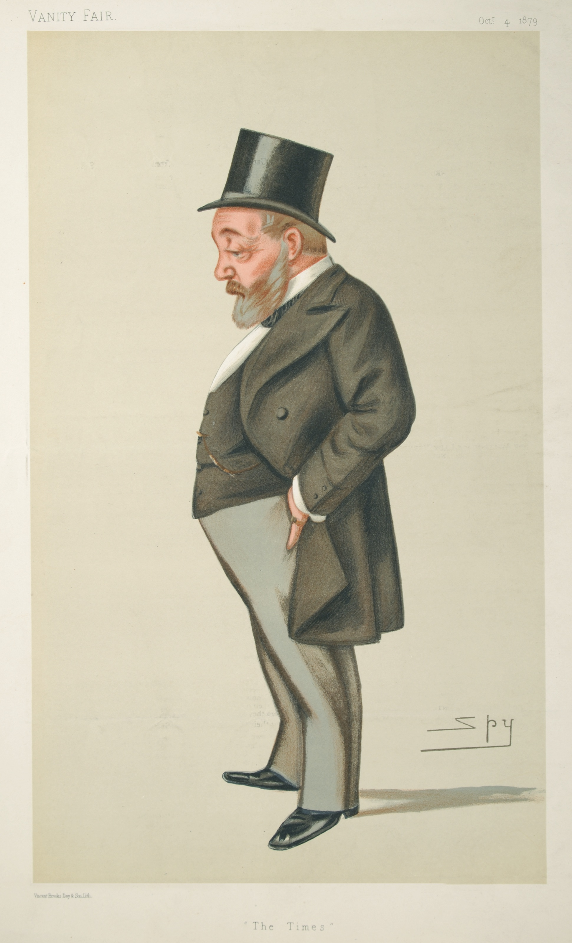 Men of the Day No.206: Caricature of Mr Thomas Chener(e)y. Caption reads: "The Times"